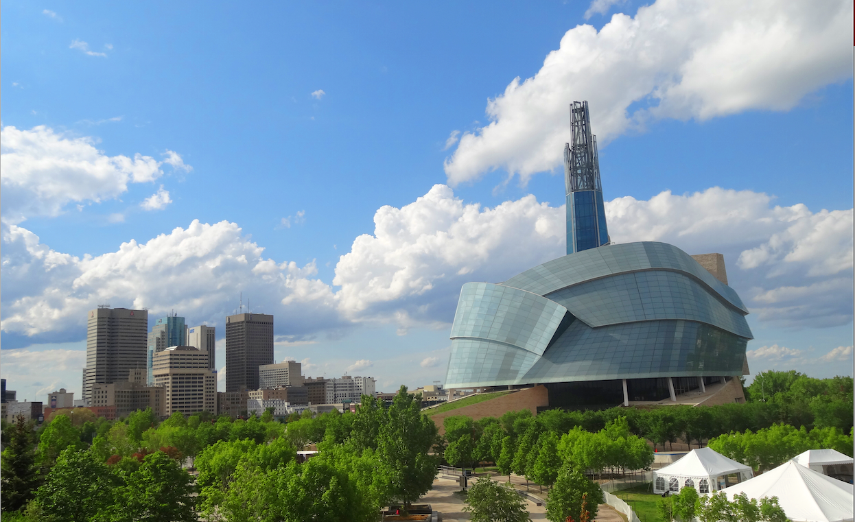 The proverbial view of downtown Winnipeg. The Canadian Museum of Human Rights in the foreground, will the downtown buildings of Portage and Main and be seen in the background.